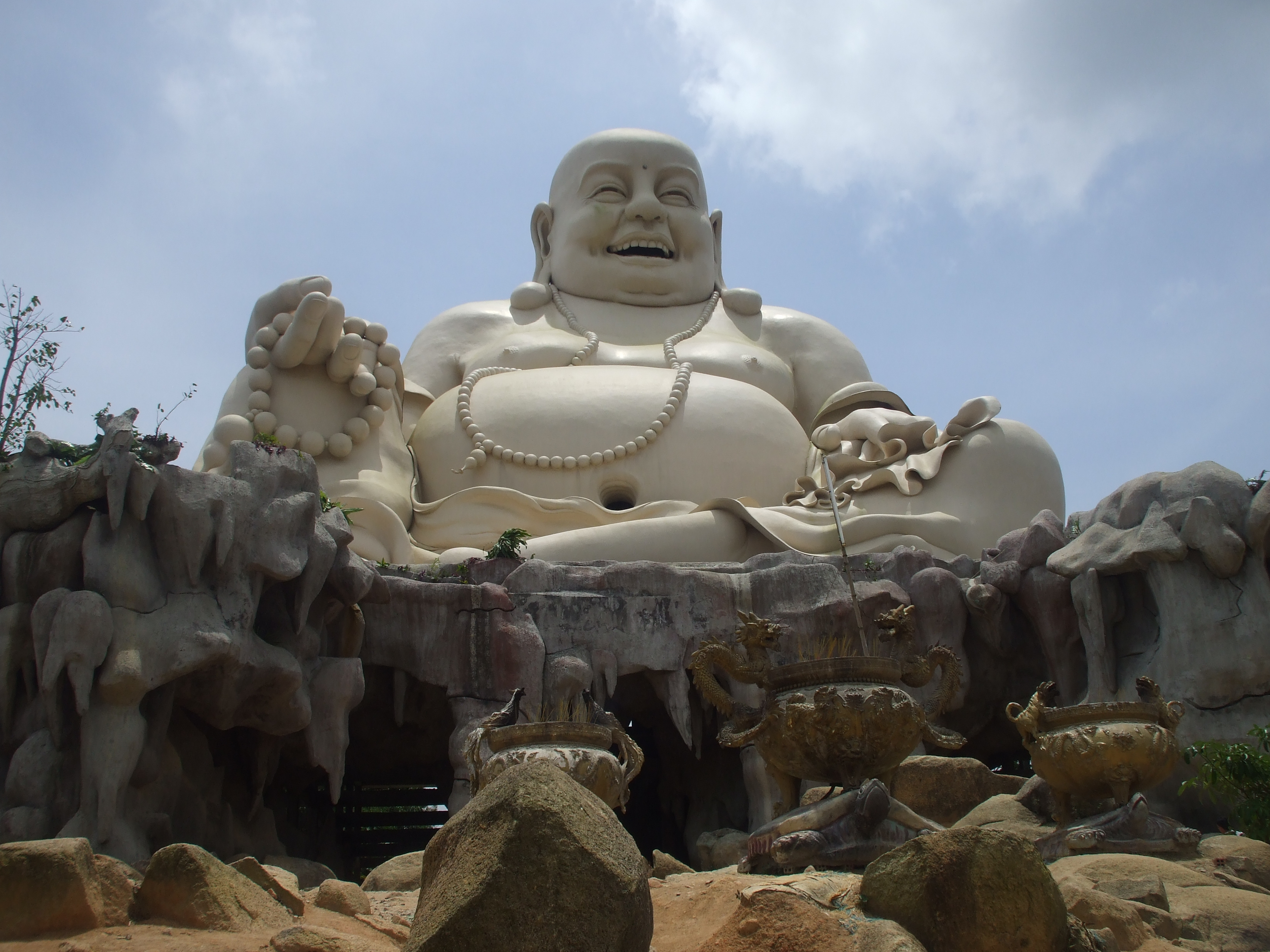 Statue of Maitreya at the Mount Cam, Tinh Bien District, An Giang Province, Vietnam